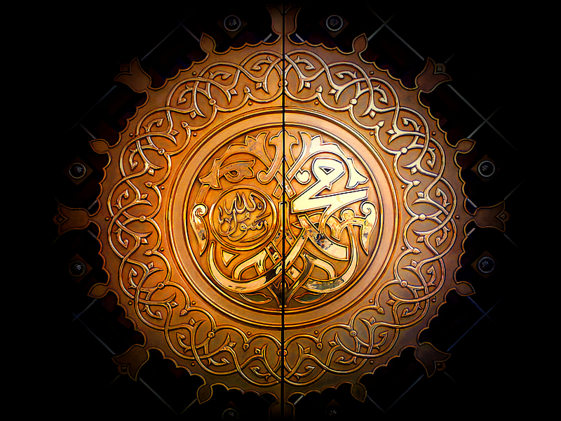 This is a derivative work based on File:Al-Masjid_AL-Nabawi_Door.jpg by بلال الدويك which I modified from my upload of this original image to File:Al-Masjid_AL-Nabawi_Door800x600x300.jpg. A black vignette has been overlaid on the image, and lighting has been digitally manipulated to suggest the image was taken in a dark environment.